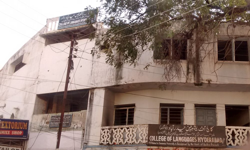 College of Languages, Hyderabad, India